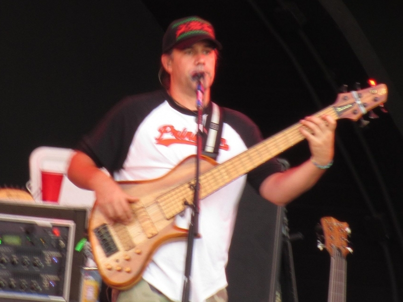 John Kinchla performing with Blues Traveler in East Meadow, New York (June 2013)